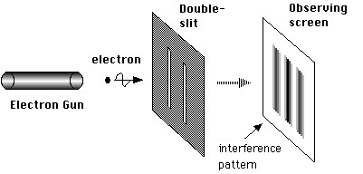 Description : An illustration of the 'Double-slit experiment' in physics. Author : uploader, myself